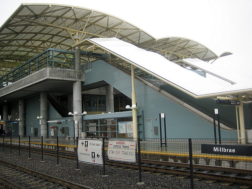 Millbrae, California, USA intermodal station: BART and Caltrain. South of San Francisco, near San Francisco International Airport.